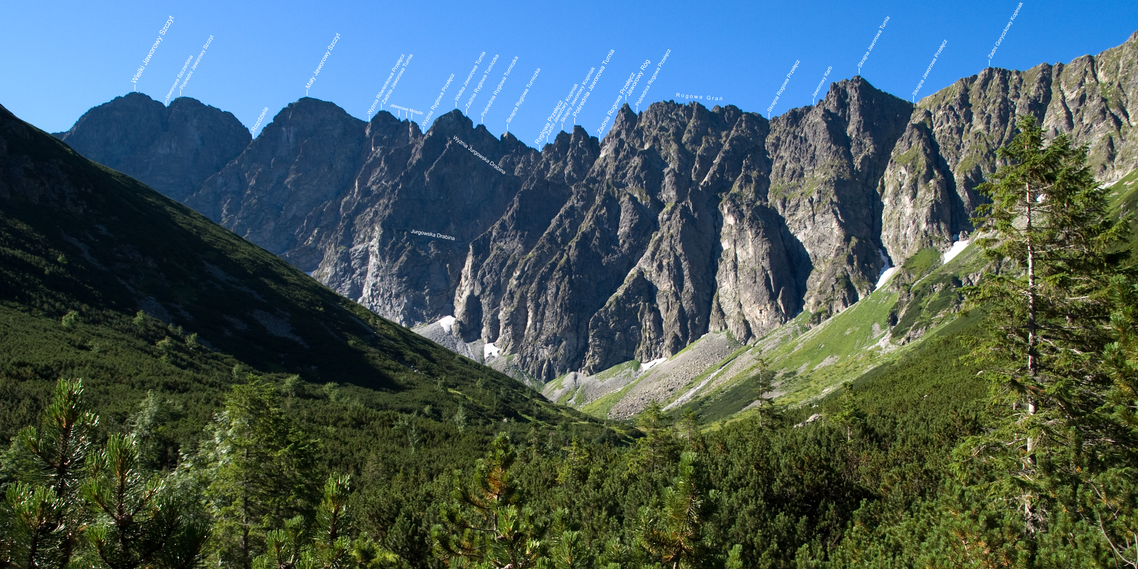 Javorový štít, Malý Javorový štít and Javorové veže